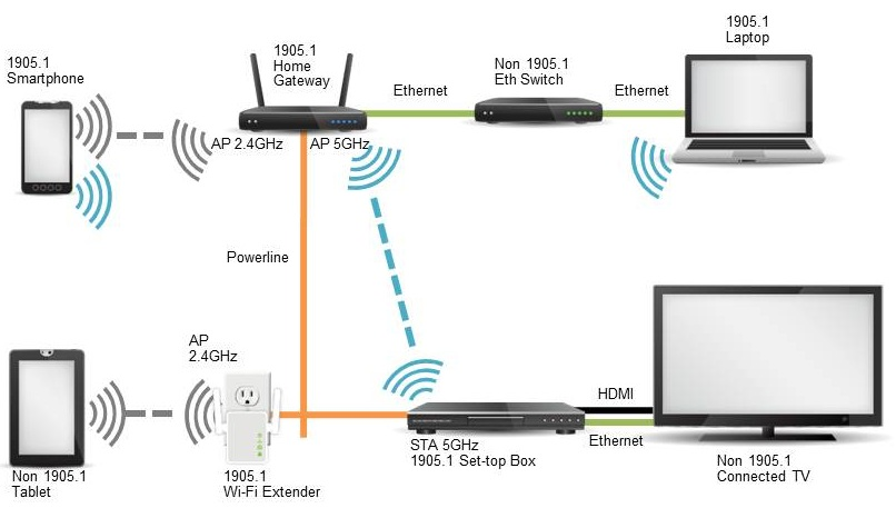 Home network with 1905.1 and non 1905.1 devices. Diagram with three technologies: powerline, WiFi and Ethernet